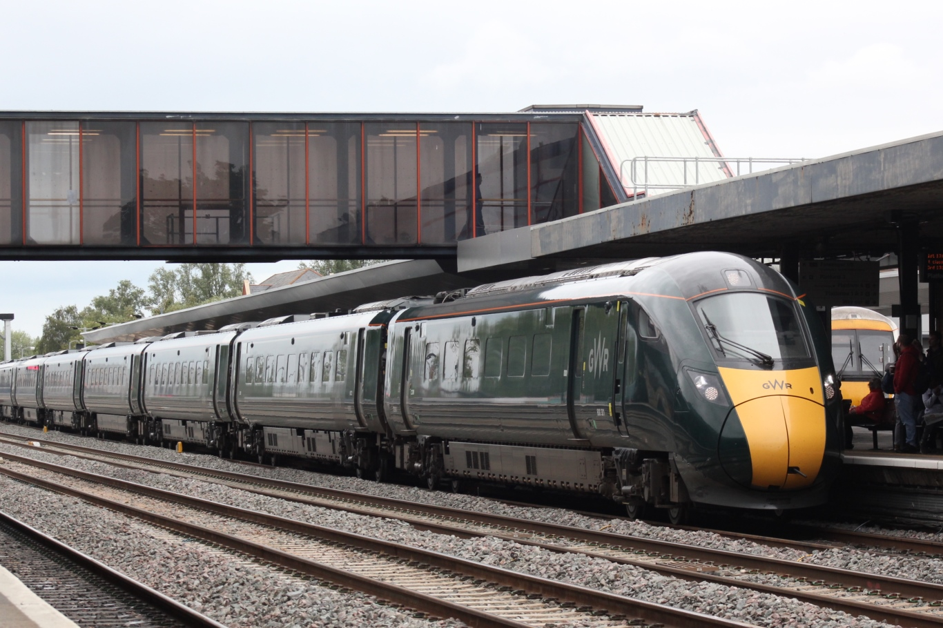 Great Western Railway 'InterCity Express Train' 800301 arrives at Oxford from the carriage siding ready to work a service to London Paddington.